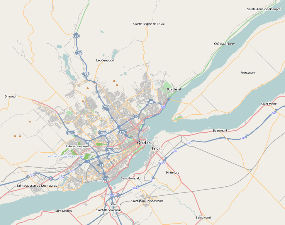 Map of Quebec city